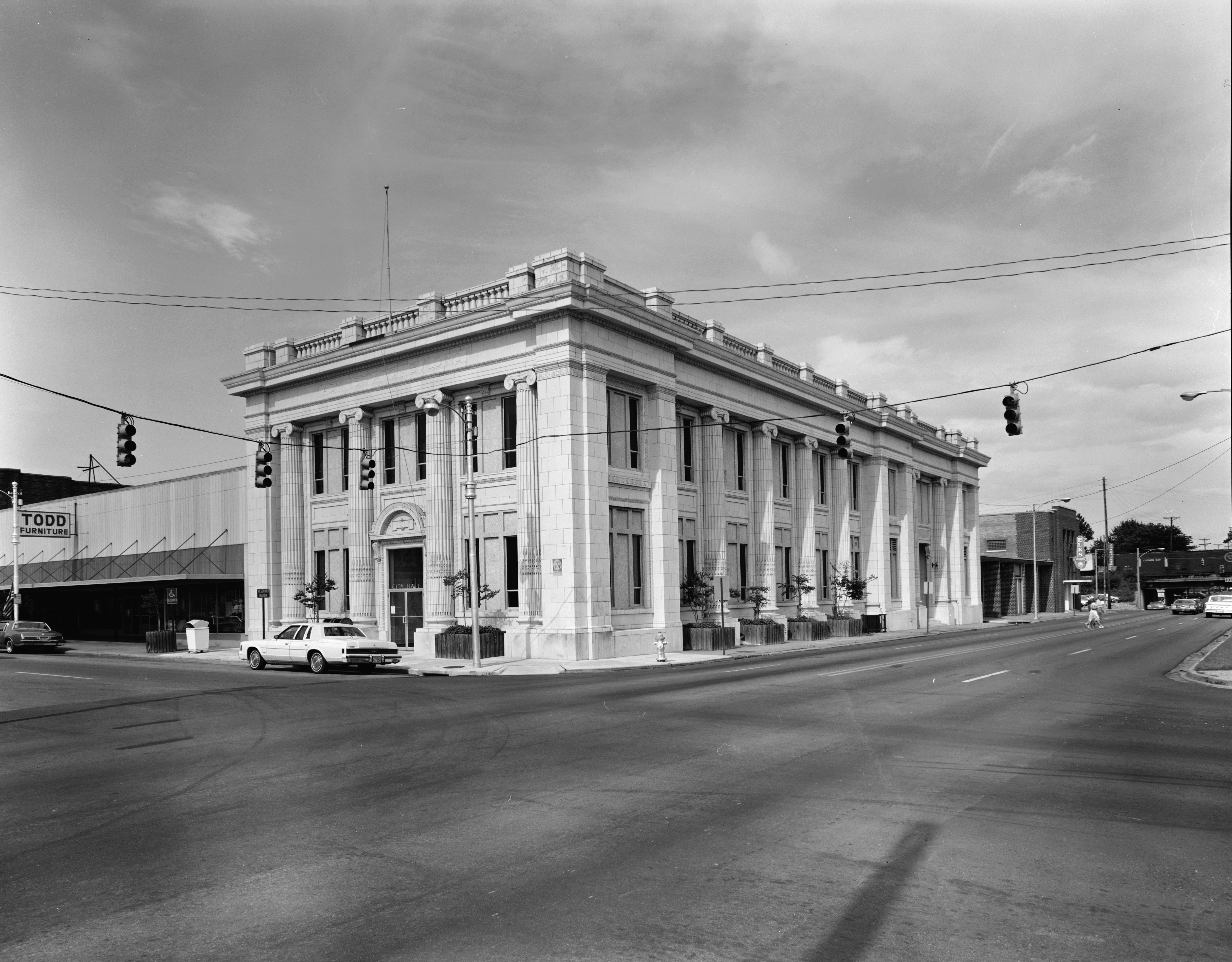 Western and southern sides of the North Little Rock City Hall, located at the junction of Third and Main Streets in North Little Rock, Arkansas, United States. Built in 1914, it is listed on the National Register of Historic Places.